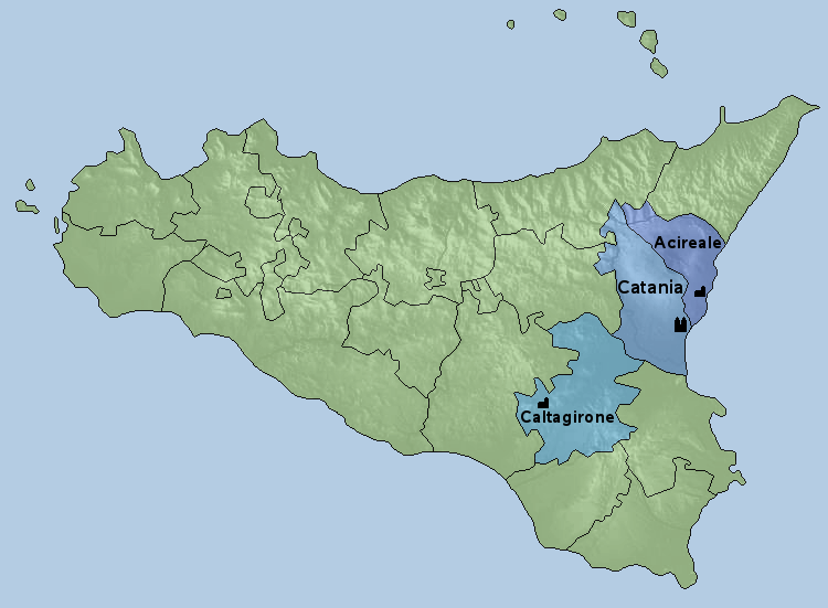 Map of the ecclesiastical province of Catania (^^: Cathedral of a metropolitan diocese, –^: Cathedral of a suffragan diocese, ^–: Co-cathedral)